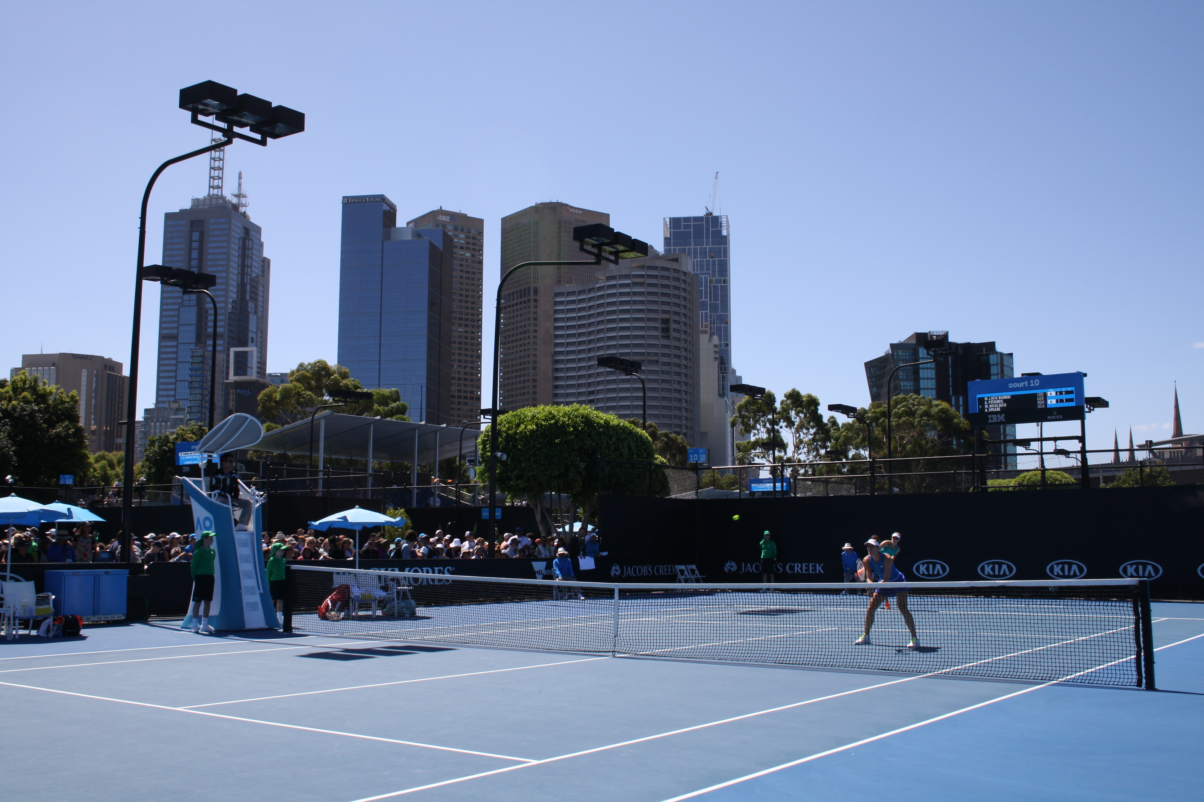 Australian Open Court 10, January 2017